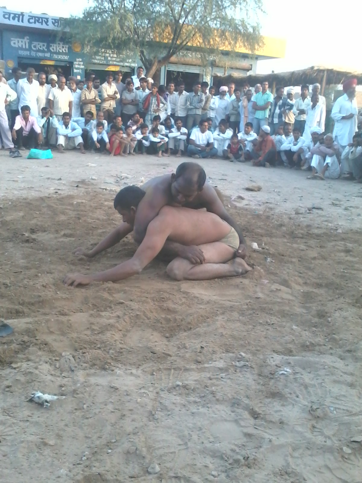 I wikiuser Shemaroo (Shivender Singh) have taken and uploaded by my camera.In this photo a scene of Indian rural wrestling at Rawla Mandi. Shemaroo (talk) 01:02, 29 September 2012 (UTC)